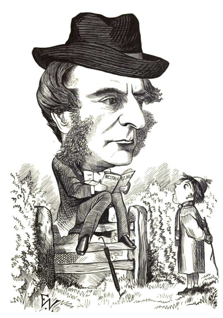 Charles Kingsley. Modern History. from Cartoon portraits and biographical sketches of men of the day